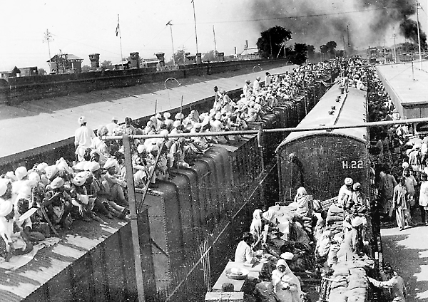 Emergency trains crowded with desperate refugees (downloaded July 2004)